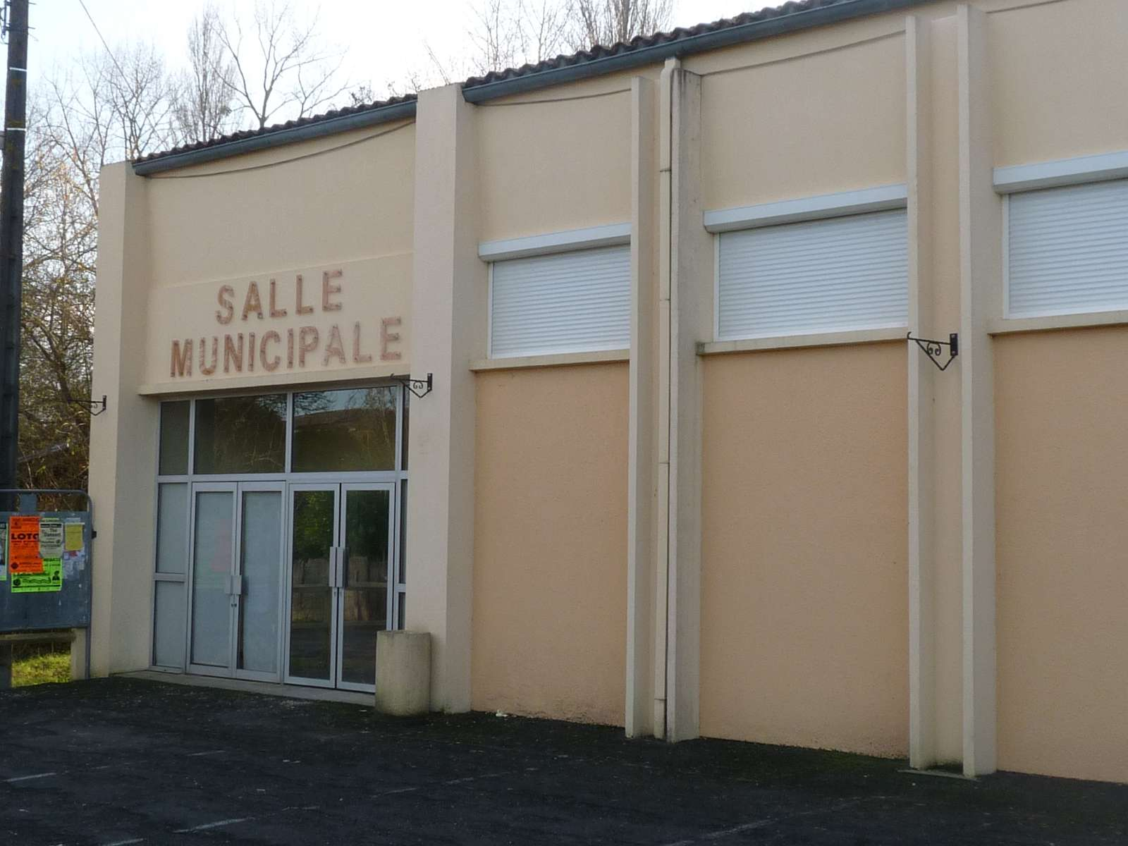 community hall of Guimps, Charente, SW France